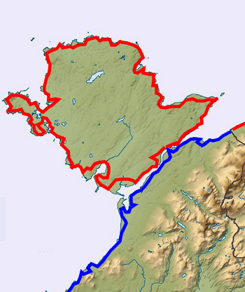 2 Mon - The Wales Coast Path goes around the coastline of Wales. It can be divided into sections or shorter paths